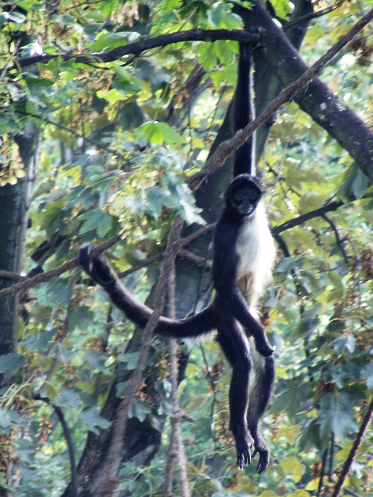 Ateles geoffroyi (Prague Zoo)